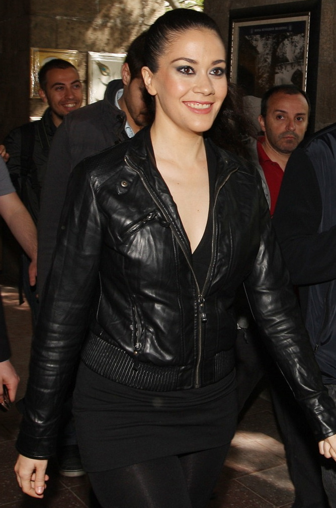 Seda Egridere on the set of Alina, the Turkish Assassin